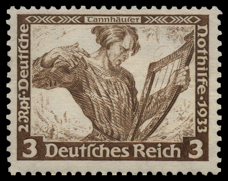 Series for social help with pictures of the work of Richard Wagner Ausgabepreis: 3+2 Reichspfennig First Day of Issue / Erstausgabetag: 1. November 1933 Michel-Katalog-Nr: 499 (Deutsches Reich)